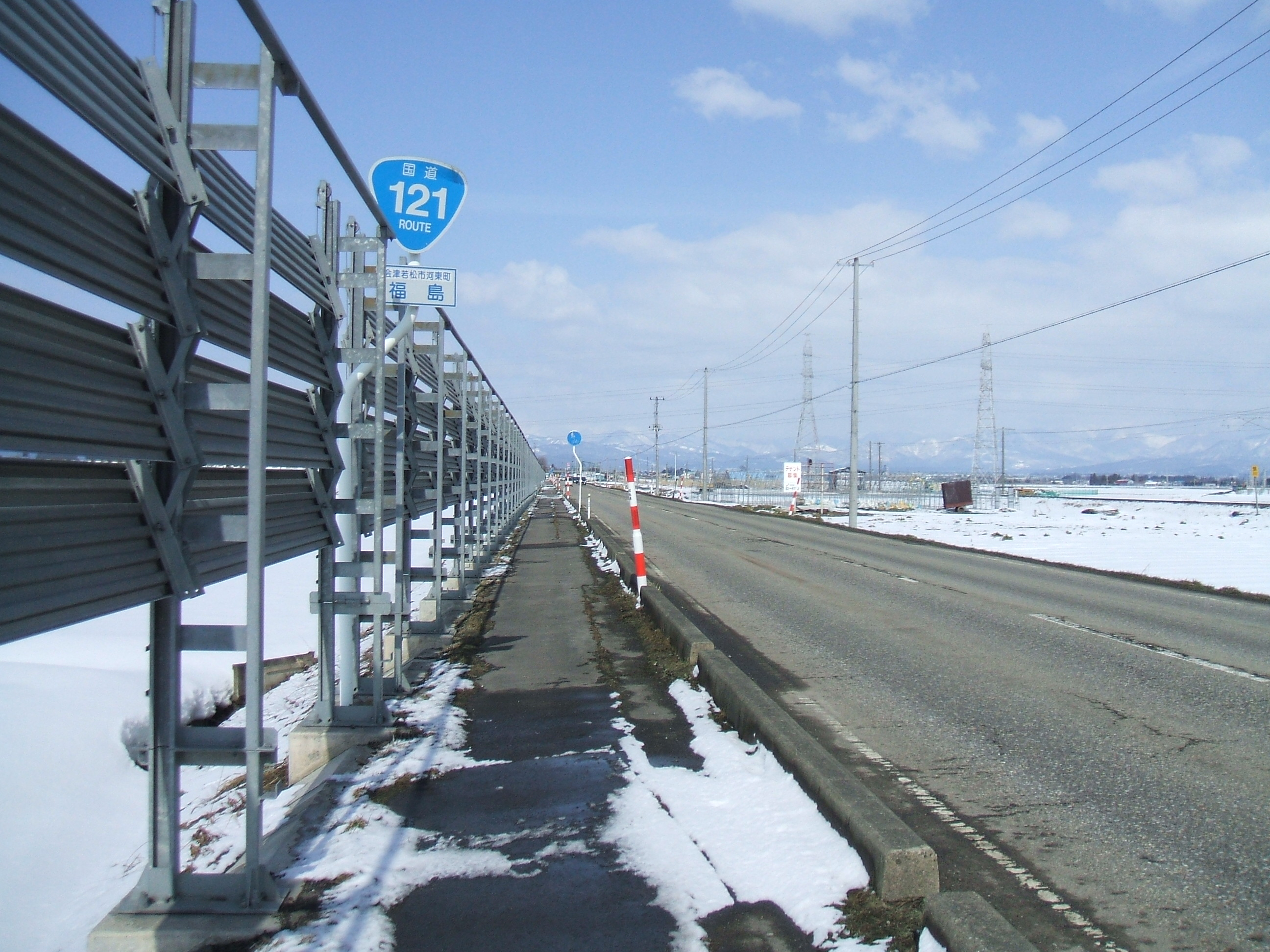 This is a landscape of Japanese National Road Route 121. It was taken at Fukushima, Kawahigashi, Aizuwakamatsu, Fukushima.